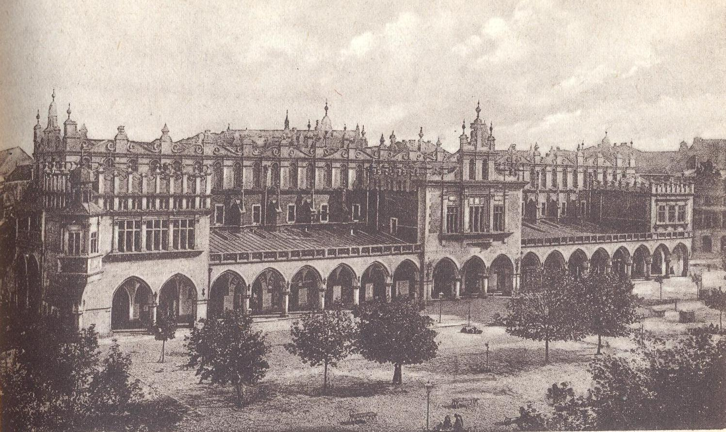 Kraków Cloth Hall, Krakow, Poland.